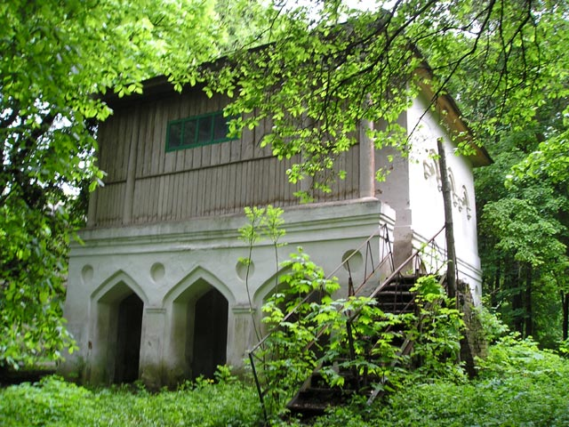 Скарбниця_Кочубея